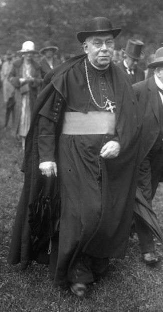 Title: Josef Deitmer Extra information: Weihbischof von Berlin Dr. Josef Carl Maria Deitmer People in the image: Deitmer, Josef Dr.: Weihbischof von Berlin, Deutschland Factual corrections and alternative descriptions are encouraged separately from the original description. Additionally errors can be reported at this page to inform the Bundesarchiv. Original historic description